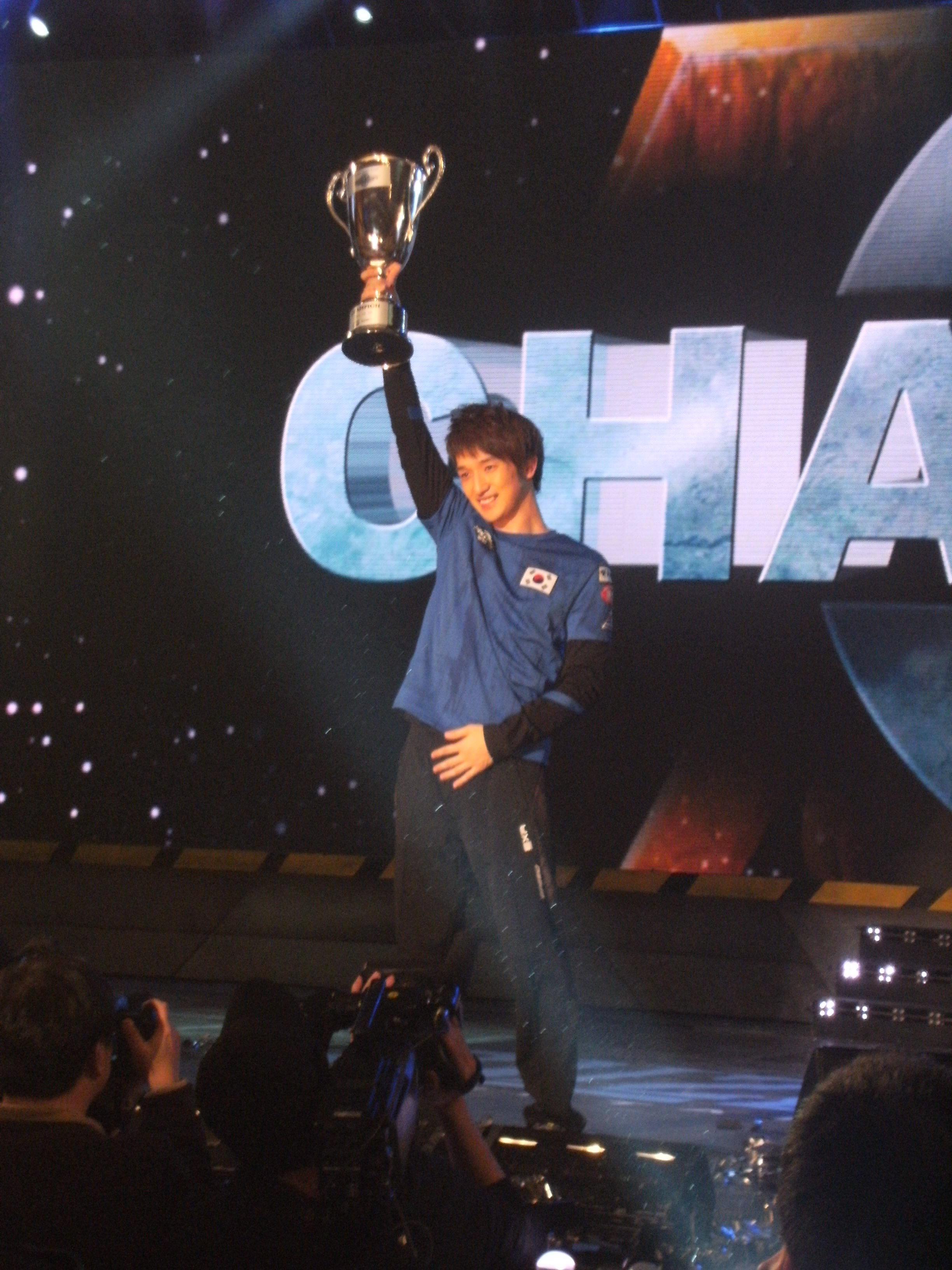 South Korean StarCraft player Mun Seong-won (nickname: MMA)